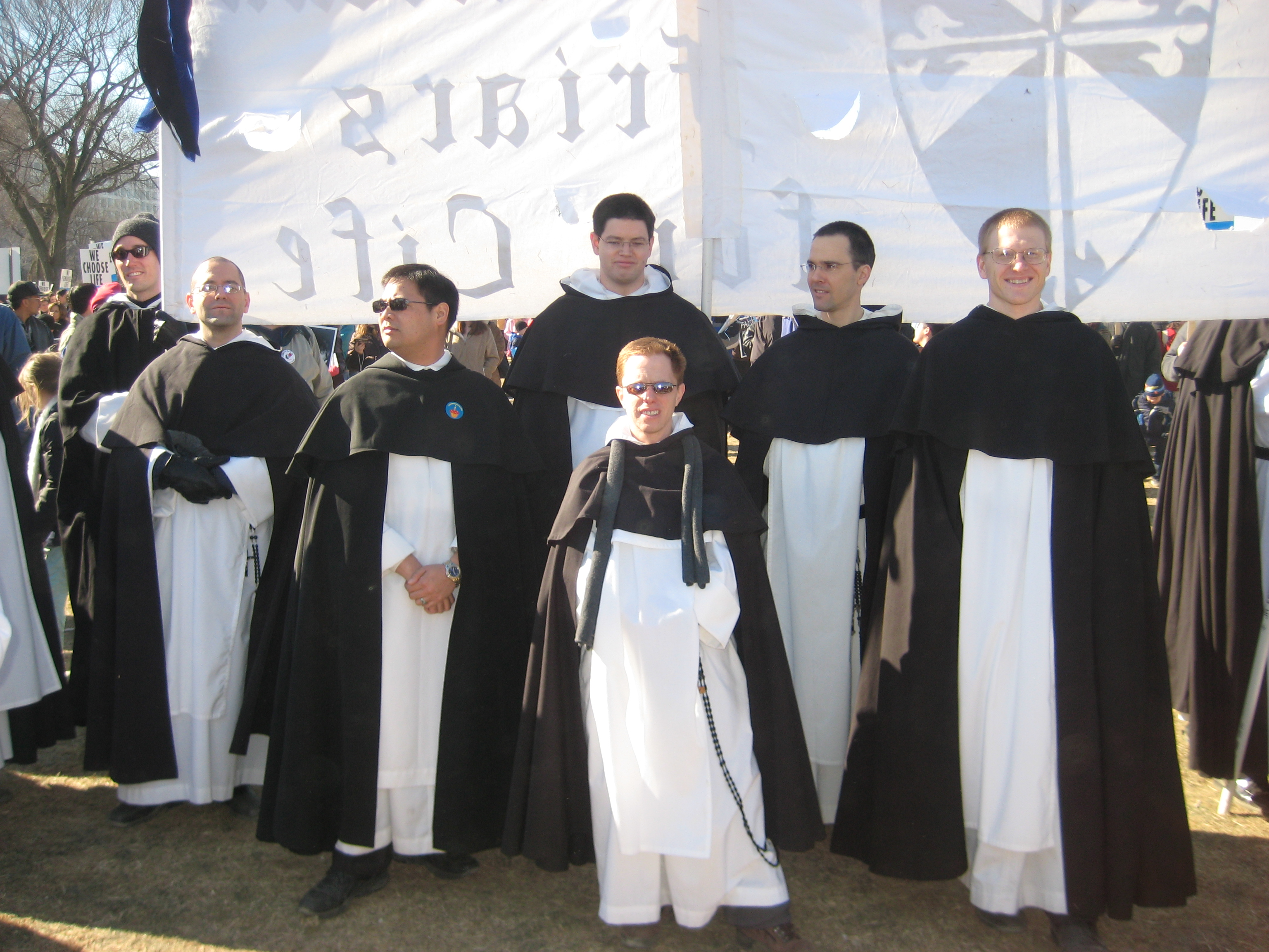 Dominican Friars at the 2009 March For Life in Washington, D.C. Photo by John Stephen Dwyer